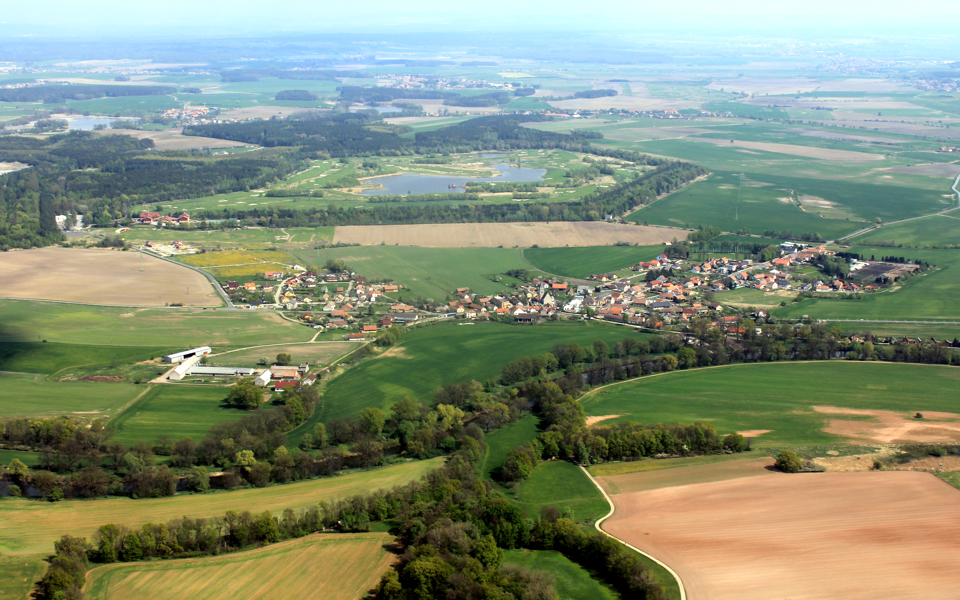 Village Dříteč and golfcourse GreenGolf Pardubice from air, eastern Bohemia, Czech Republic